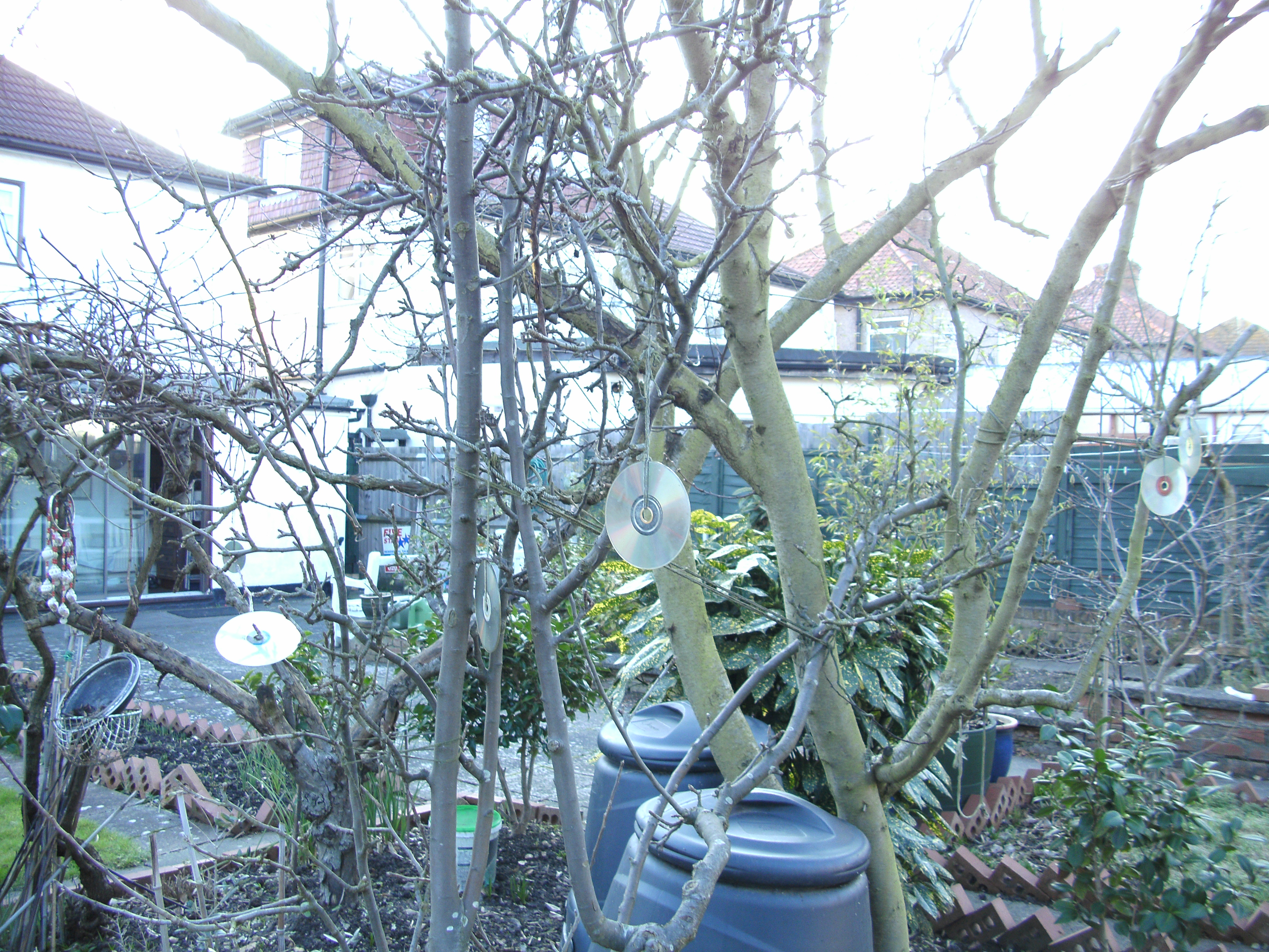 Obsolete compact discs being used as bird scarers, they catch the light and the reflected beams usually scare most birds away, however the resident pigeons have grown accustomed to the light and feast away on the cabbages.